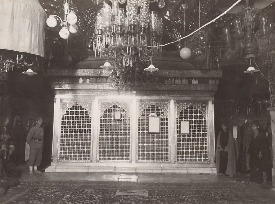 Imam Husayn Shrine in Karbala